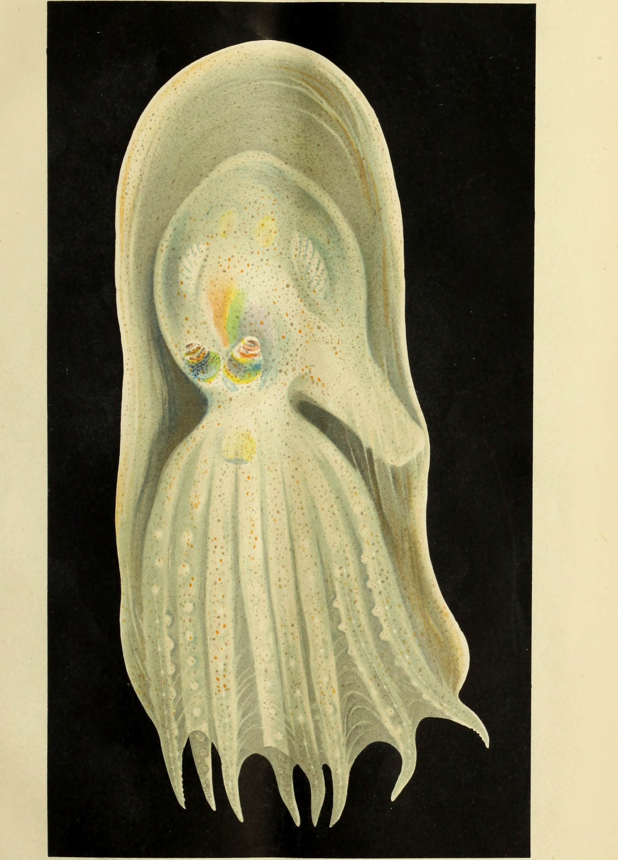 Amphitretus pelagicus Title: Annotationes zoologicae japonenses / Nihon dōbutsugaku ihō Year: 1897 (1890s) Authors: Nihon Dōbutsu Gakkai; Tōkyō Dōbutsu Gakkai Subjects: Publisher: Tokyo : Societas Text Appearing Before Image: Annot. Zool. Jap. Vol. IV. Fl. II. Text Appearing After Image: Amphitretus pelagicus. Natural size.